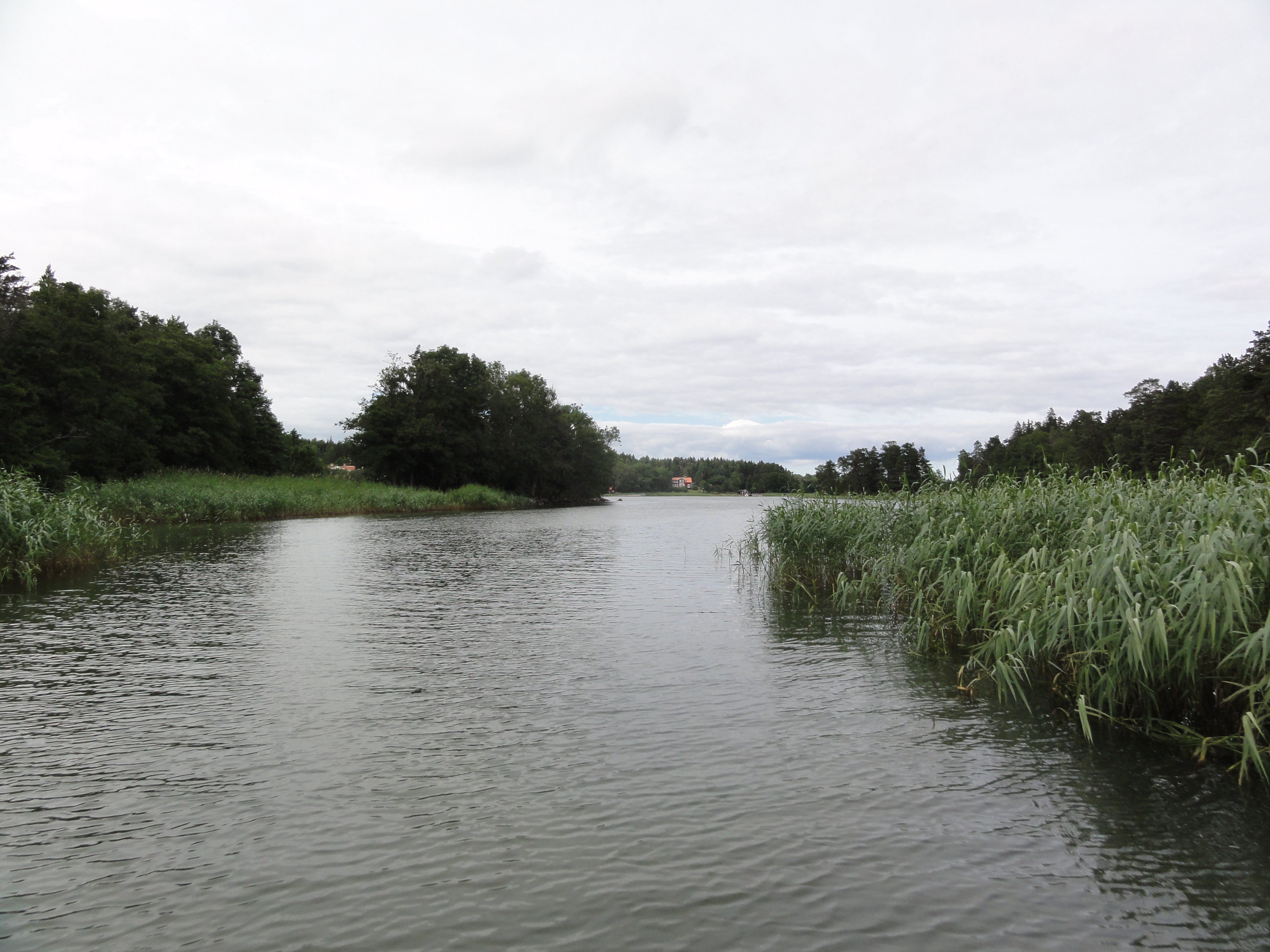 Narrow sound between Nämmarö and Väringsö in Stockholm archipelago